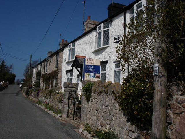 Llysfaen cottages A row of cottages in the village which look out over the valley